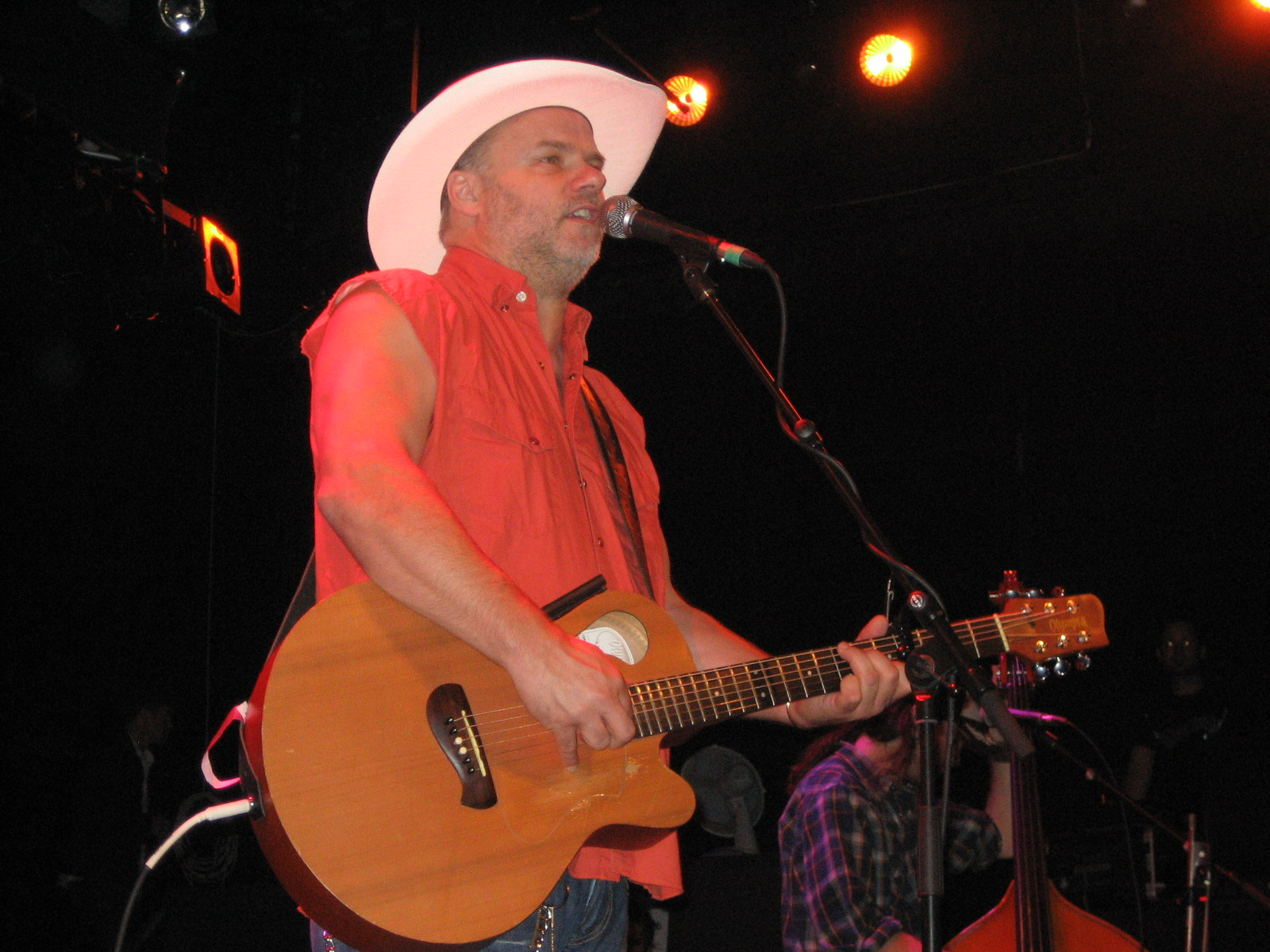 Fred Eaglesmith @ Roots of Heaven (Haarlem, The Netherlands, 26 november 2006)